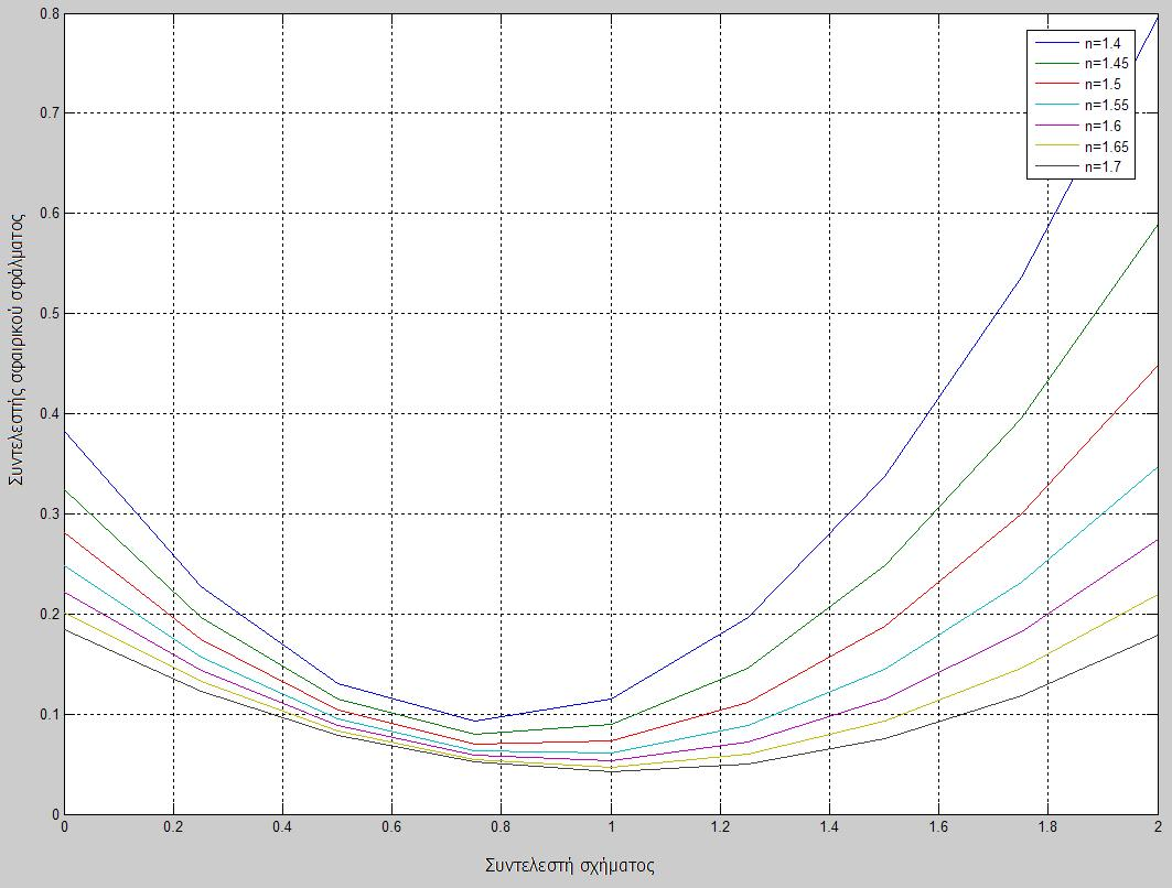 Spherical aberration